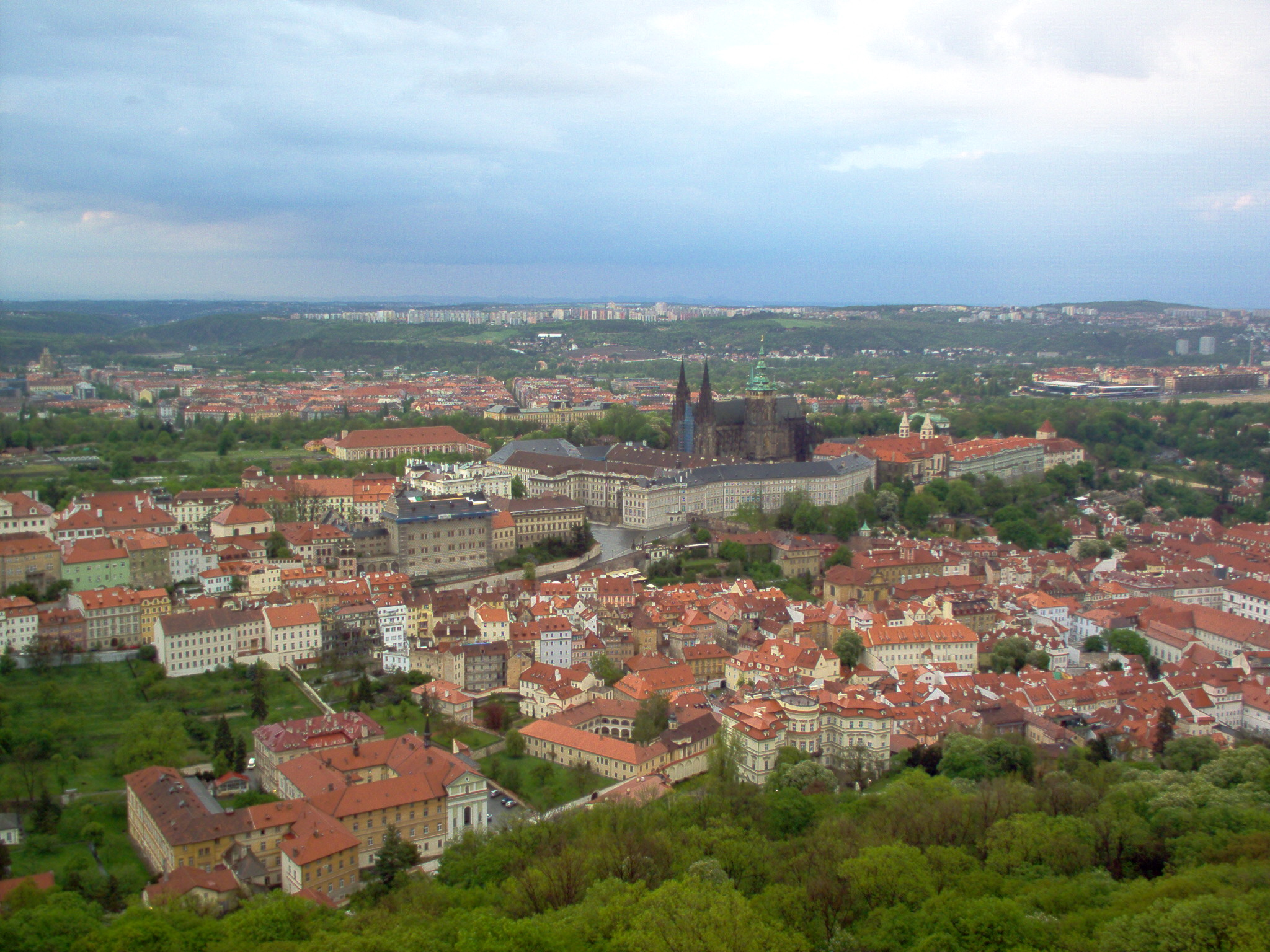 View over Prague Old Town, Czech Republic.